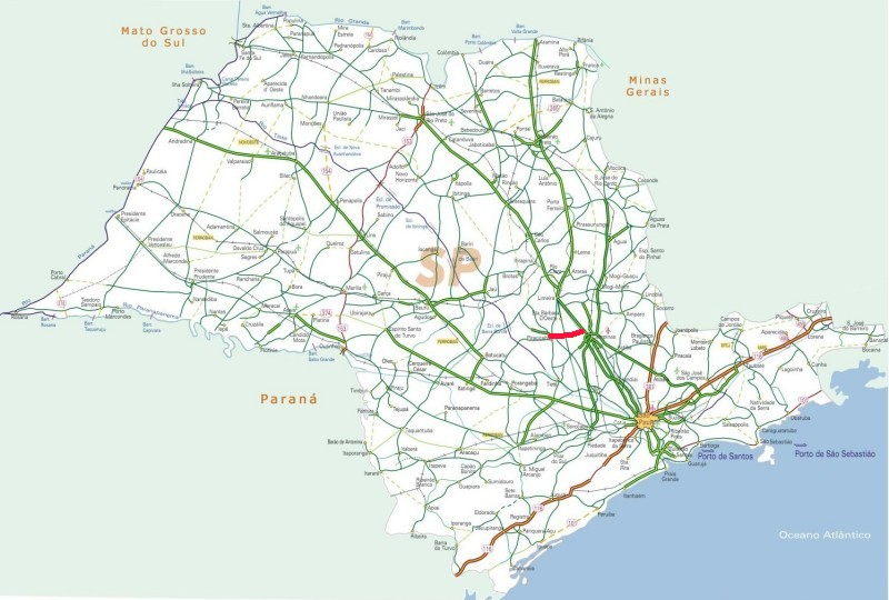 Map of Rodovia Luiz de Queiroz, a highway in the state of São Paulo, Brazil, drawn on a public domain map by the Ministry of Transportation, Brazil.